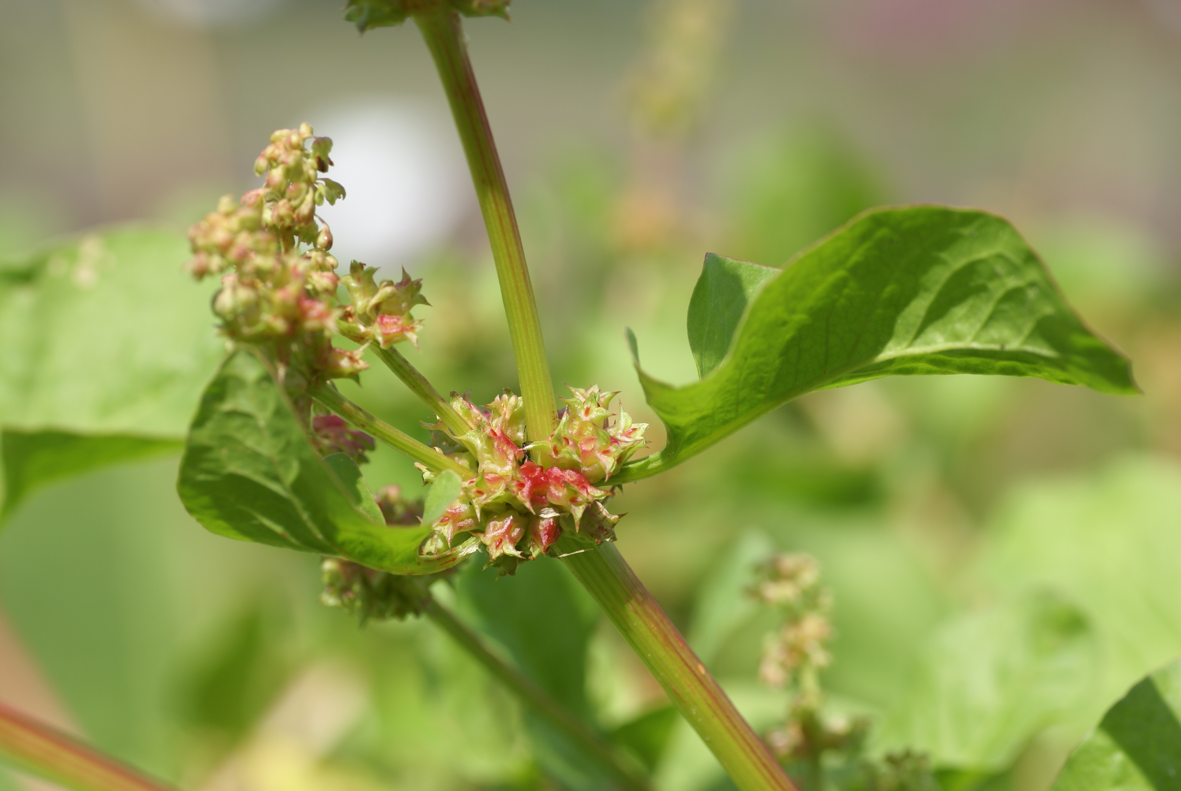 Plant species Emex spinosa in botanical garden Bergianska trädgården in Stockholm, Sweden.